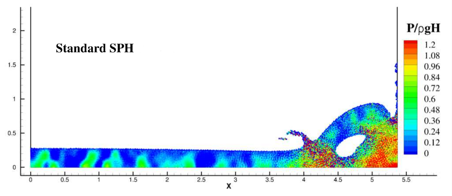 Smoothed Particle Hydrodynamics simulation: pressure fiels of a dam-break flow using standard SPH formulation